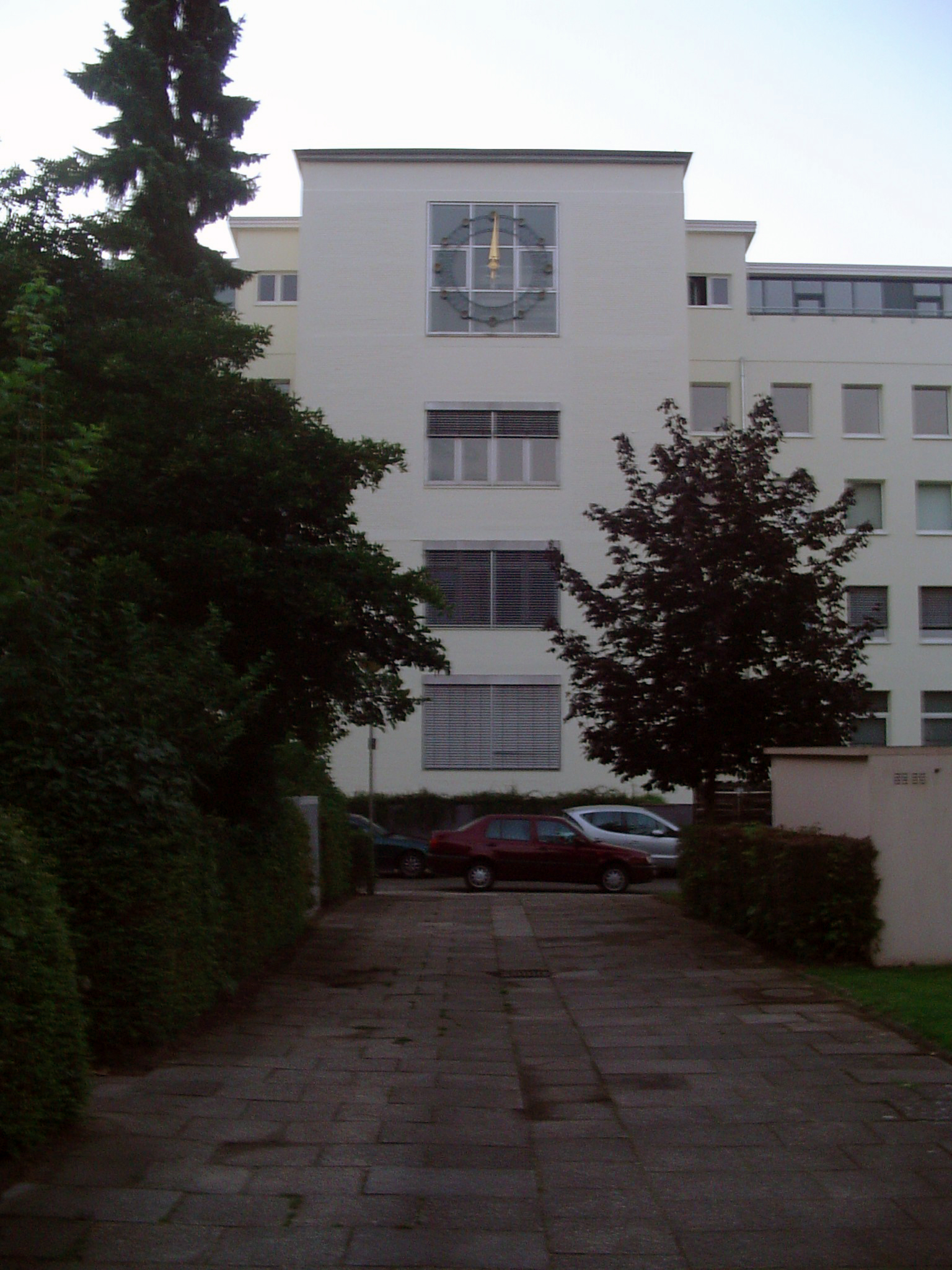 former entrance area of the building of "Radio Bremen" in Bremen. The premesis was originally designed as a hospital, but it never went into operation as hospital